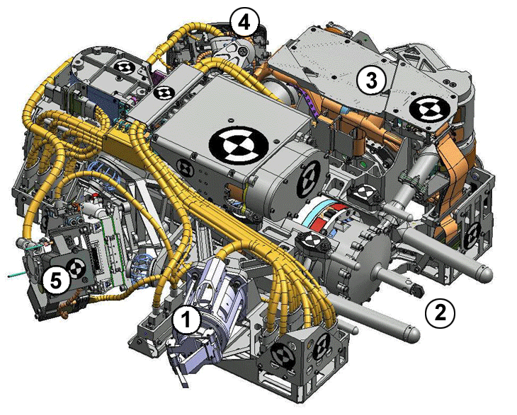 The NASA martian rover MSL (Curiosity) uses a 2-meter-long Robotic Arm which can manipulate a Turret approximately 600-mm-diameter Turret with 5 devices : Dust Removal Tool (DRT) d'un diamètre efficace de 4,5 cm (Powder Acquisition Drill System (PADS ) Collection and Handling for Interior Martian Rock Analysis (CHIMRA) Alpha-Particle-X-ray-Spectrometer (APXS) Mars Hand Lens Imager (MAHLI)